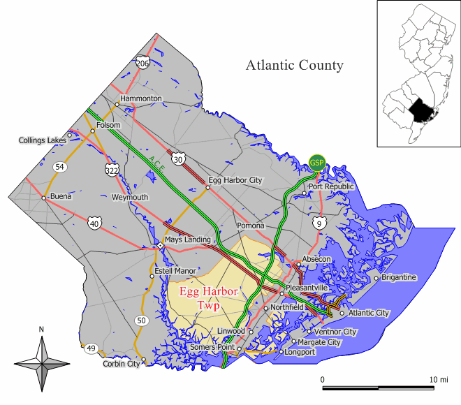 Locator map of in Monmouth County, New Jersey